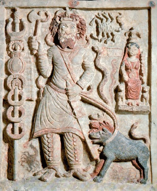 This file is a faithful, photographic reproduction of an ancient Parthian relief carving depicting Nergal, the ancient Mesopotamian god of death and plague.